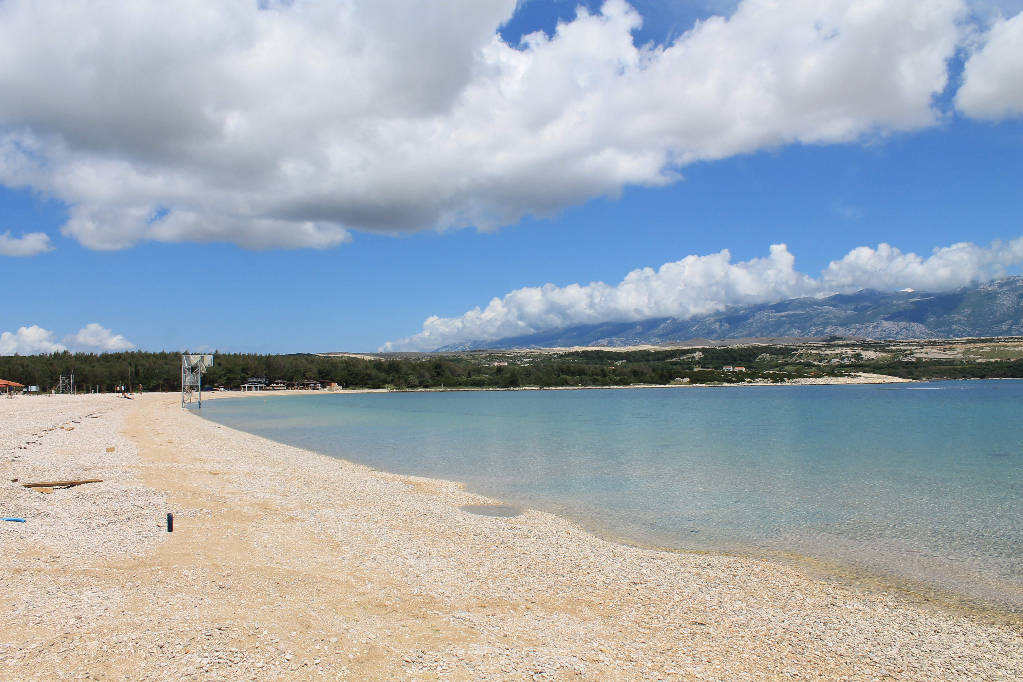 Zrce beach Club Kalypso